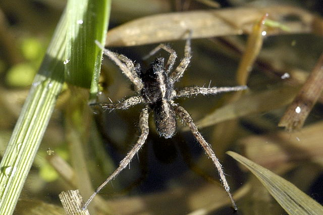 male Pardosa agricola from Commanster, Belgian High Ardennes .